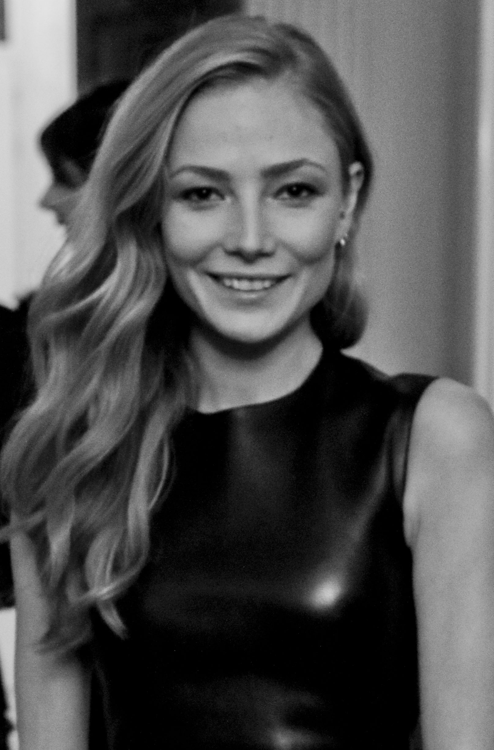 Clara Paget at Vogue London Fashion Week reception at Winfield House